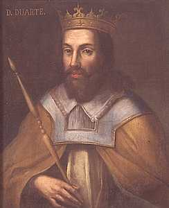 Painting of king Edward of Portugal. . By age. 12:03, 2 November 2003 Muriel Gottrop 244x300 (7394 bytes) (Painting of Duarte, king of Portugal)